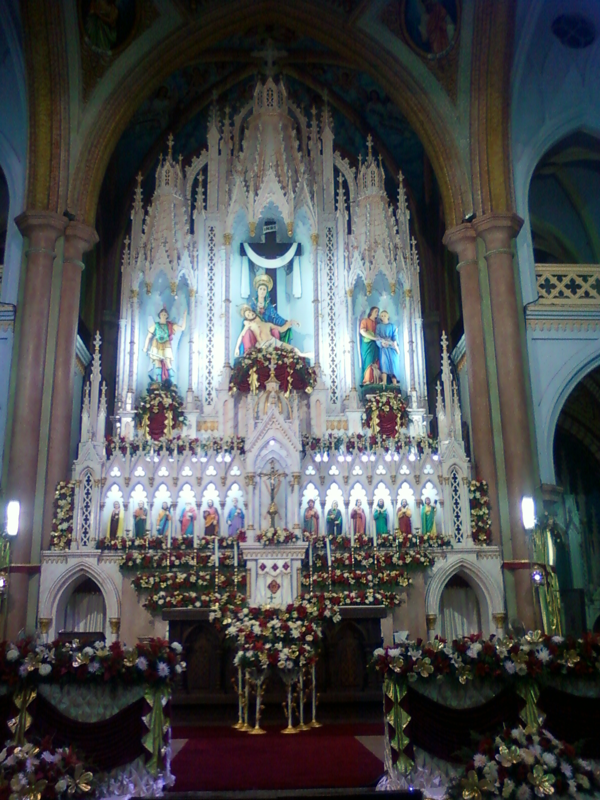 The main alter in the Basilica of Our Lady of Dolours